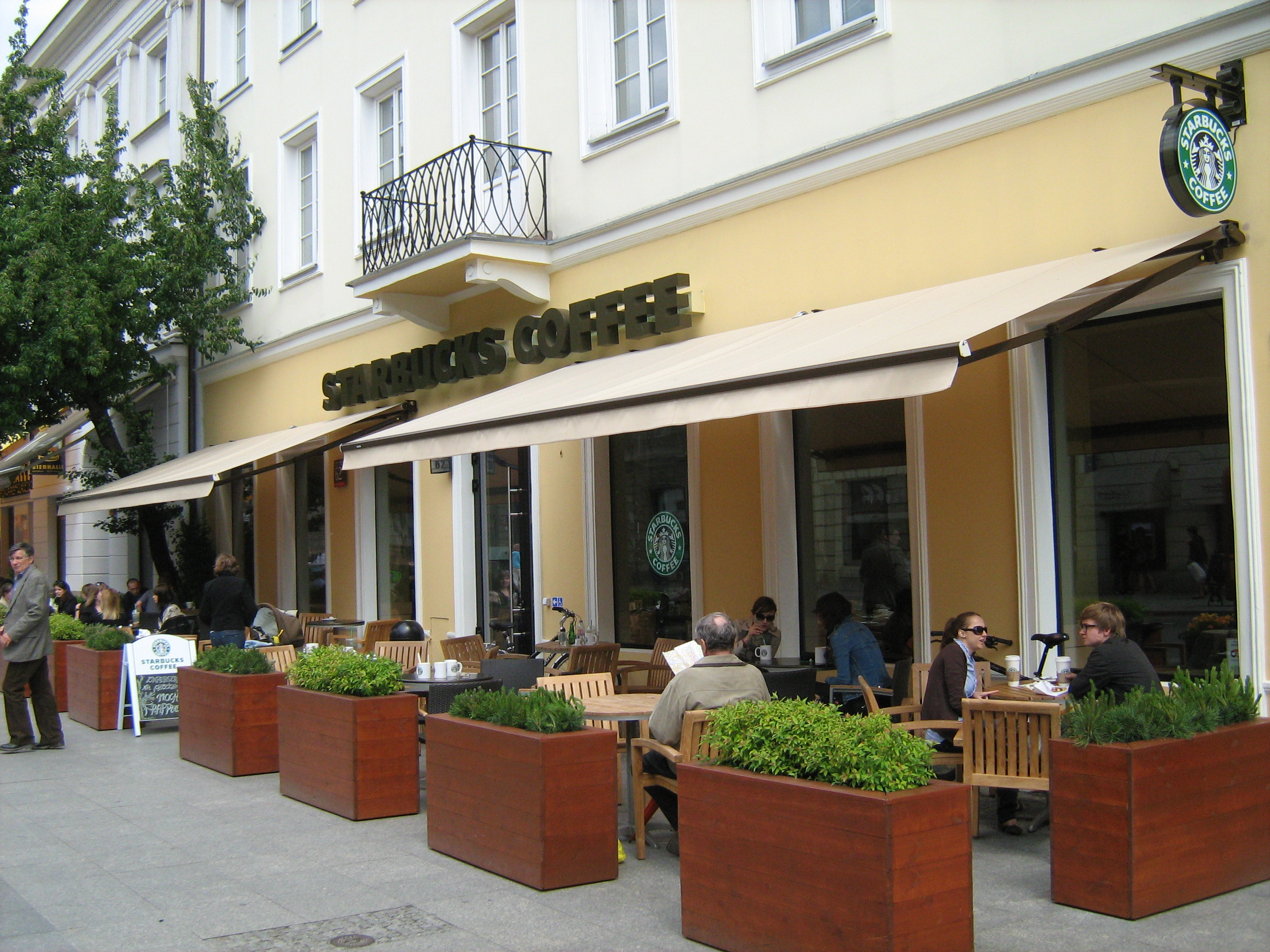 First Starbucks Coffee shop on Nowy Świat Street in Warsaw.